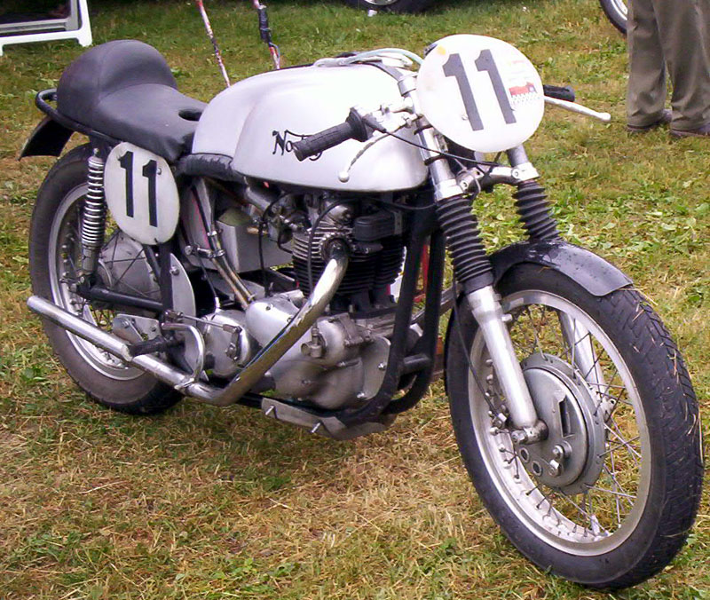 Norton Domiracer 750cc 1958